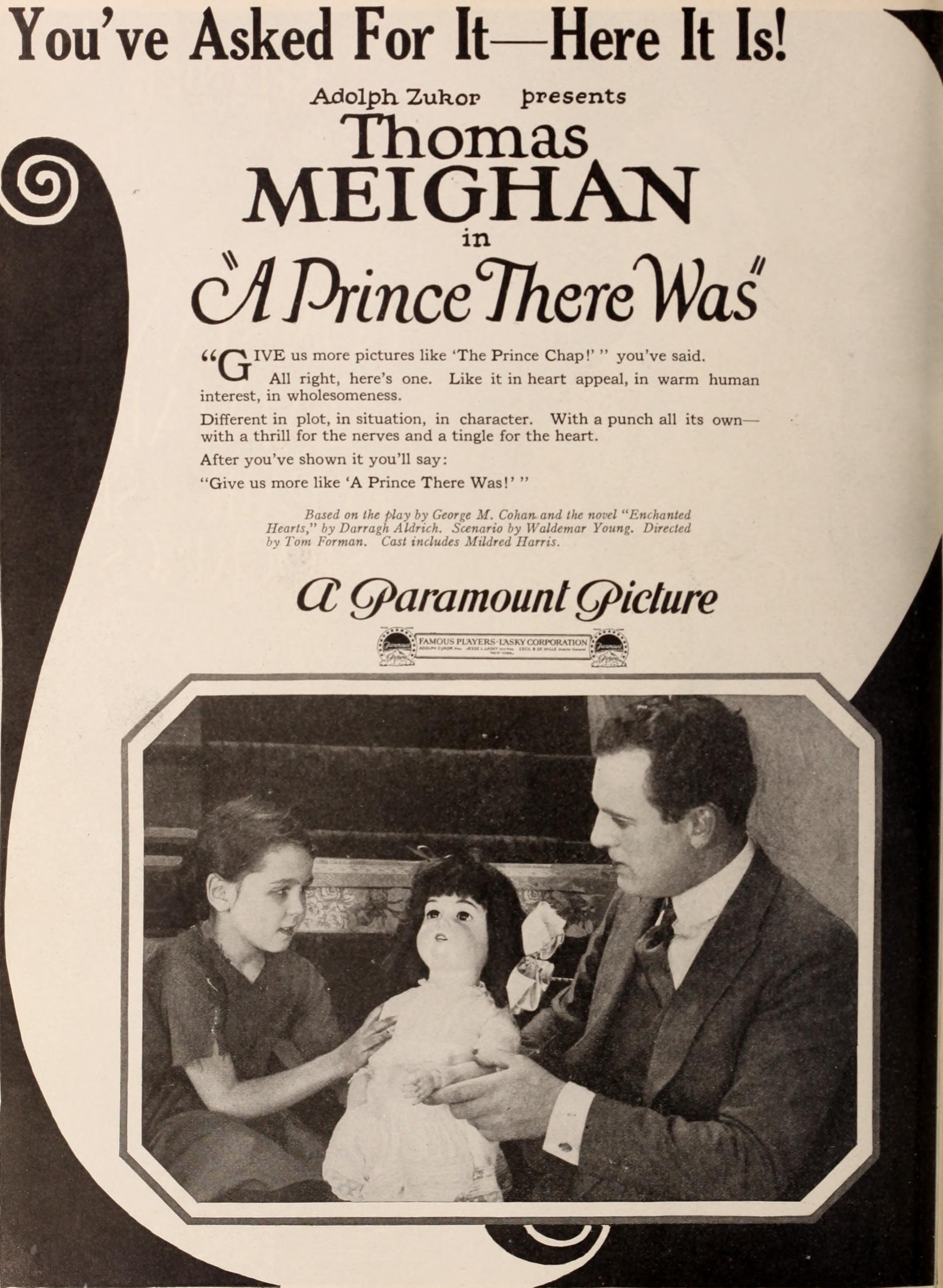 Advertisement in Exhibitor's Herald for the film A Prince There Was (1921) with Peaches Jackson and Thomas Meighan.